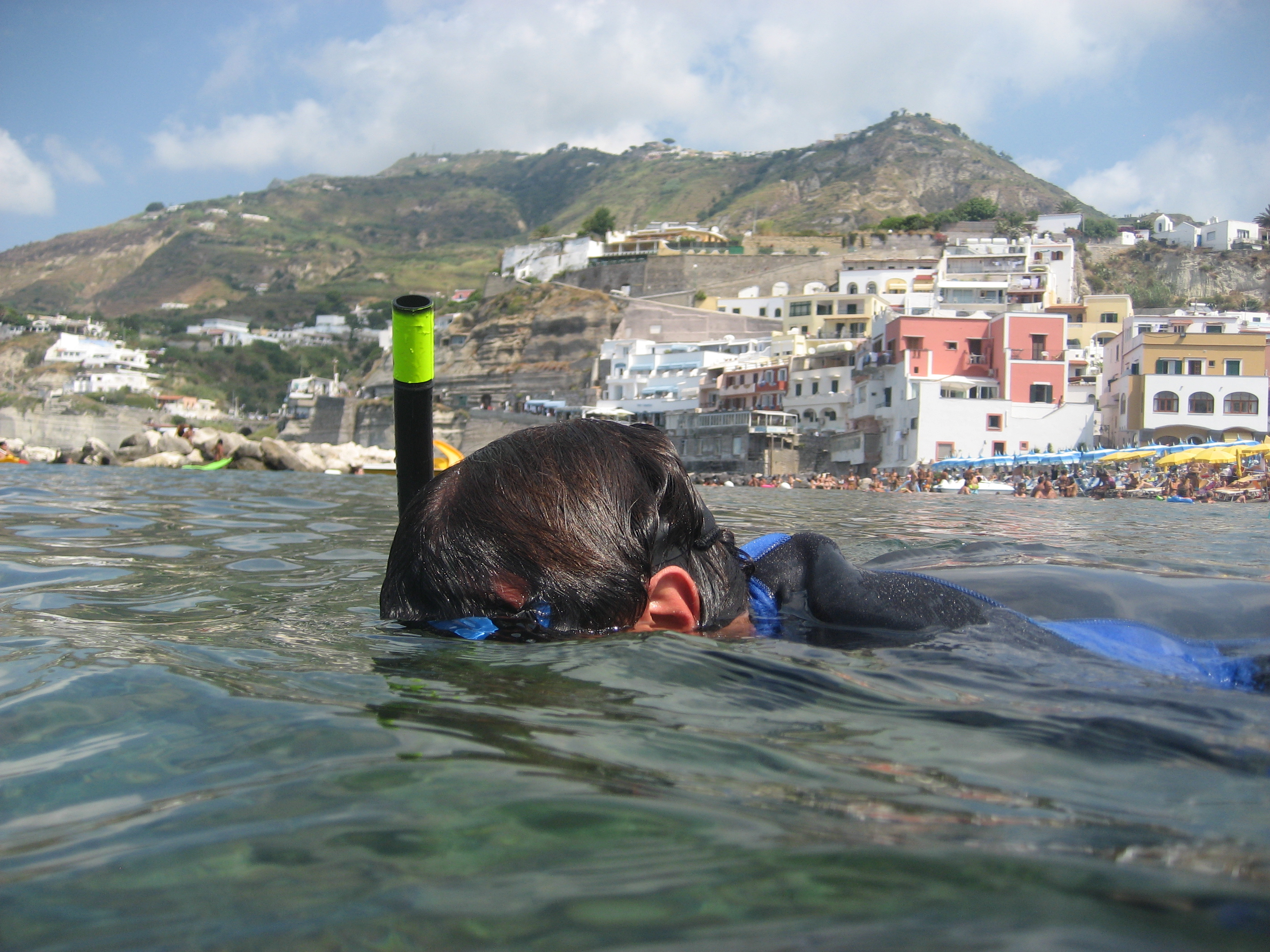 Snorkeling tour in the village of St.Angelo - Ischia island, Italy.